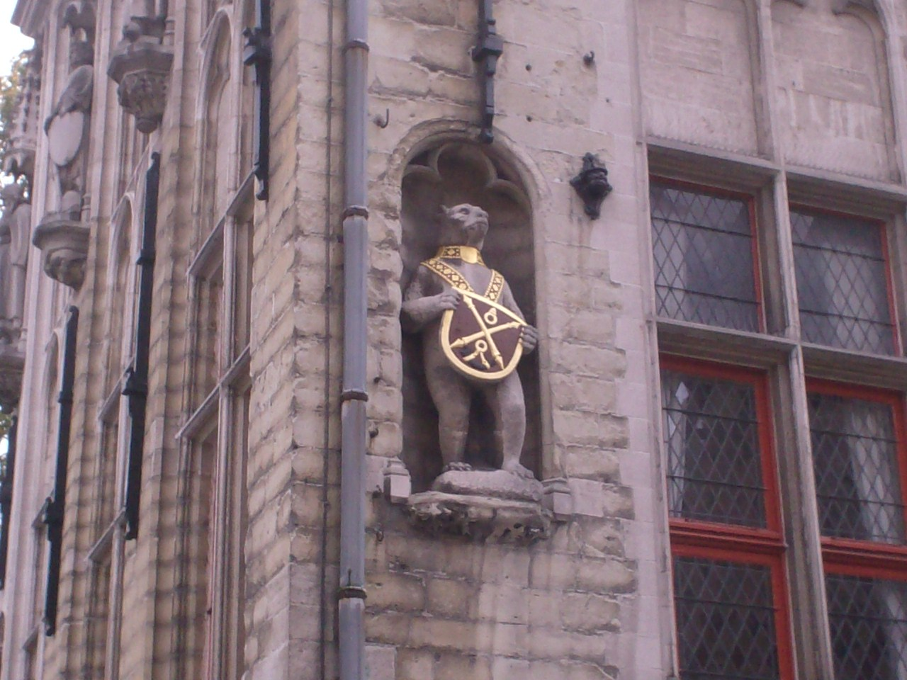 Brugs Beertje (Little Bear of Bruges) in a niche of the Poortersloge (Burgher's Lodge) in Bruges (Belgium)